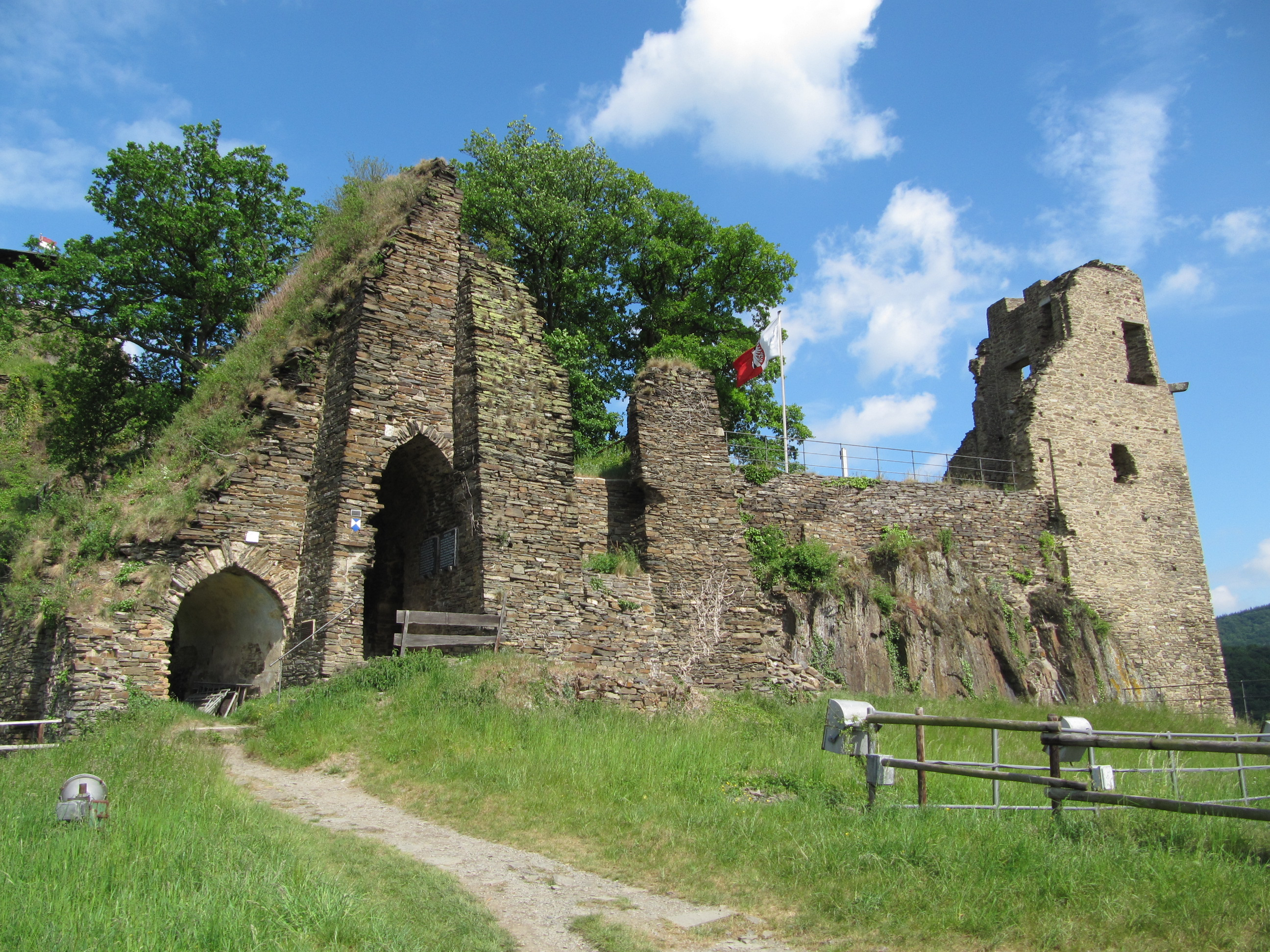 Burg Are